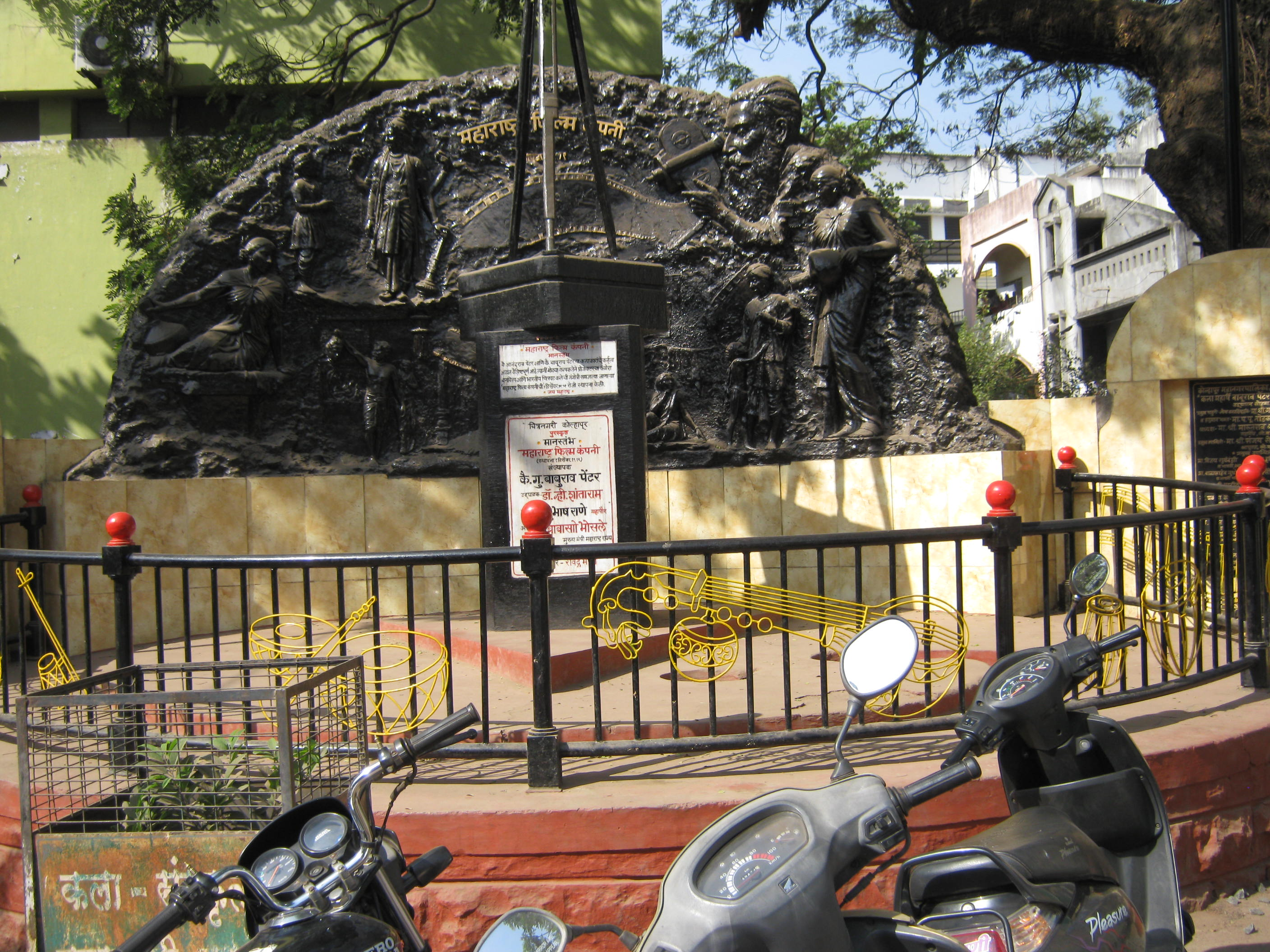 Memorial to Film director Baburao Painter ,made by artist Kishor Purekar named Camera Maansthambh(1890–1954) in Kolhapur 2012